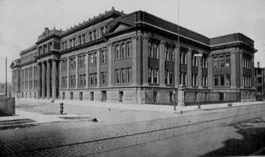 An old photograph of Lincoln Park High School.